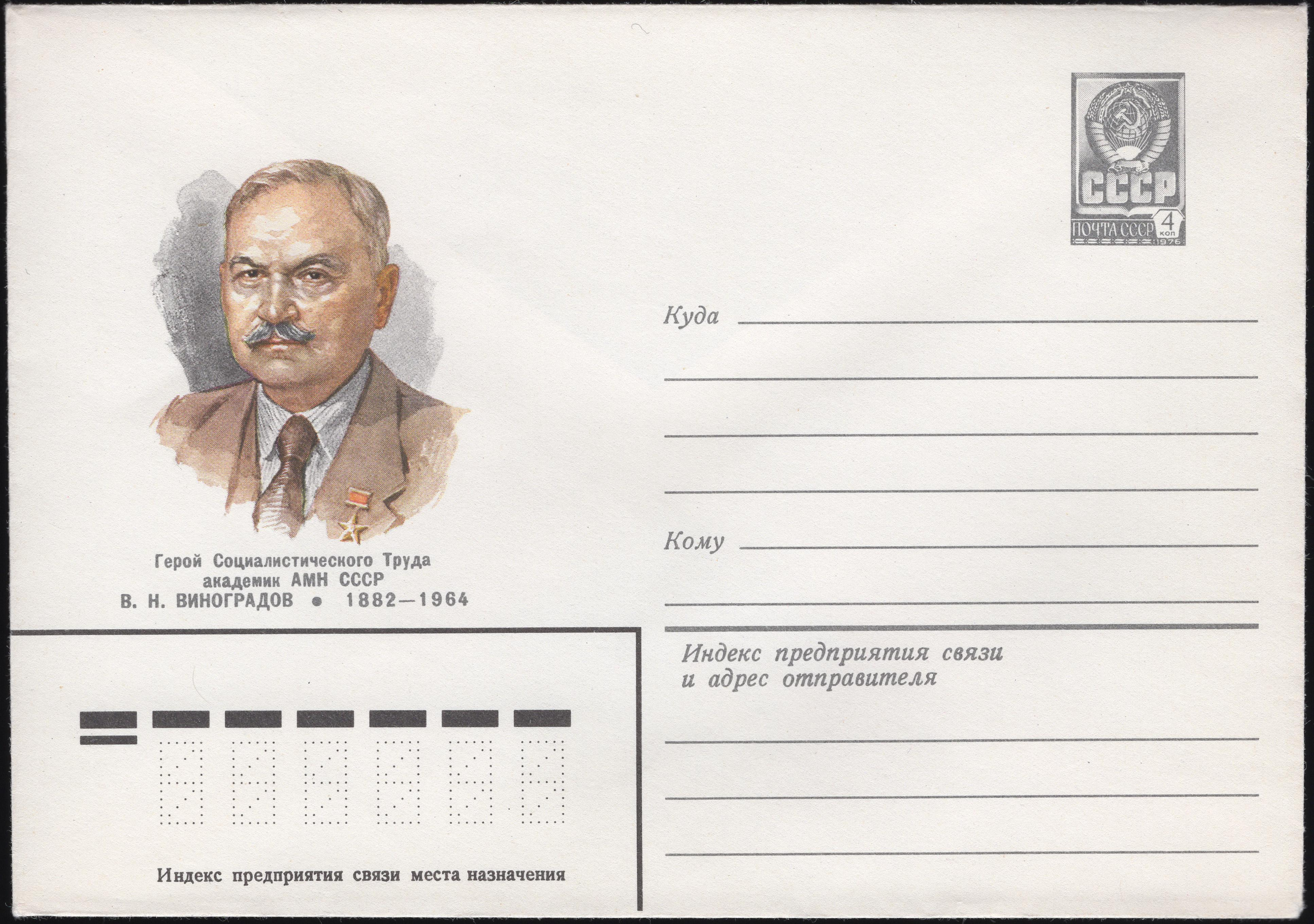 Hero of Socialist Labour academician of USSR Academy of Medical Sciences Vladimir Nikitich Vinogradov. 1882-1964. Series: Hero of Socialist Labour. Artist Peter Bendel.